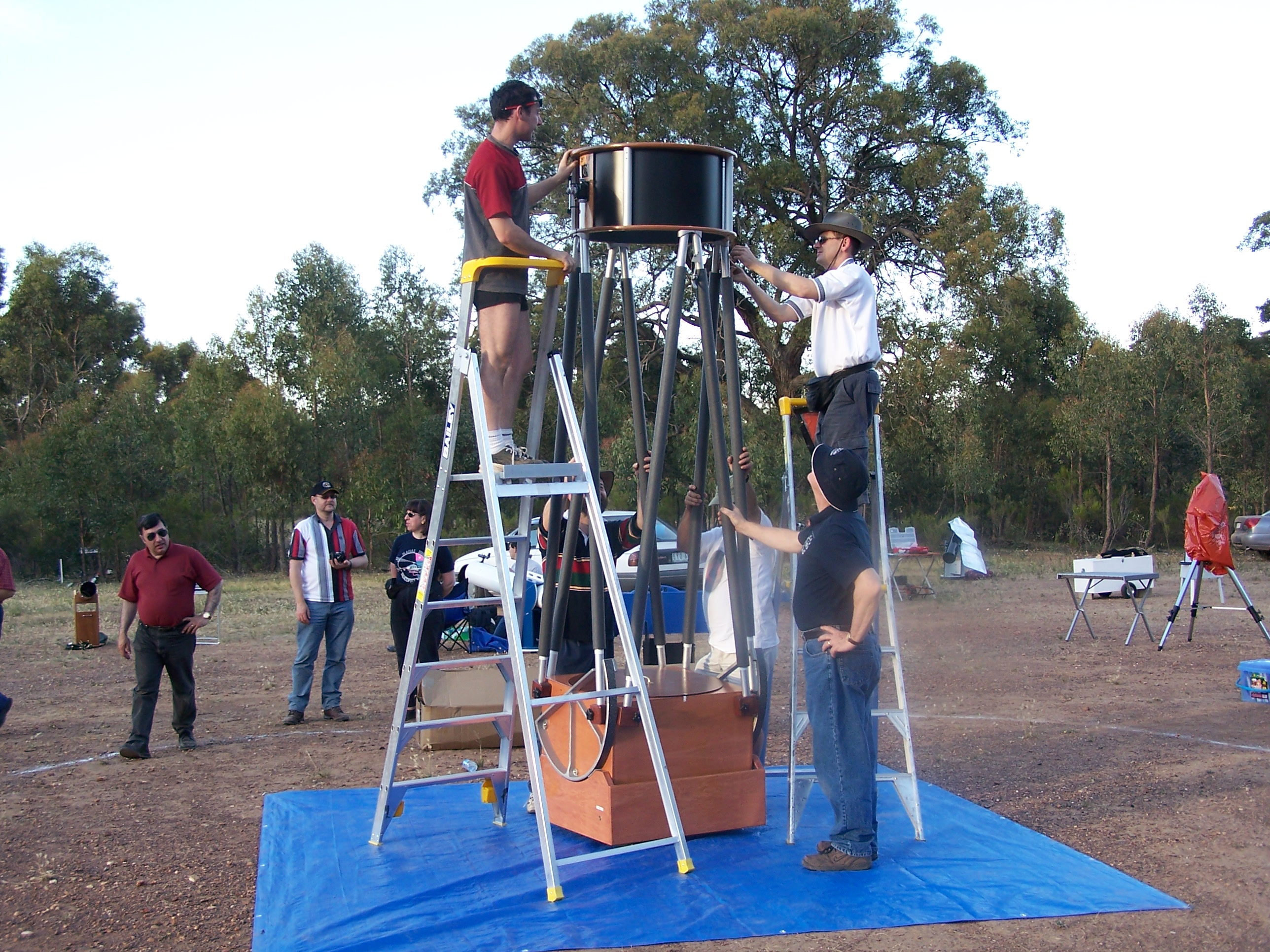 Preparing the 25-inch telescope for the the Astronomical Society of Victoria's Star-Be-Cue.